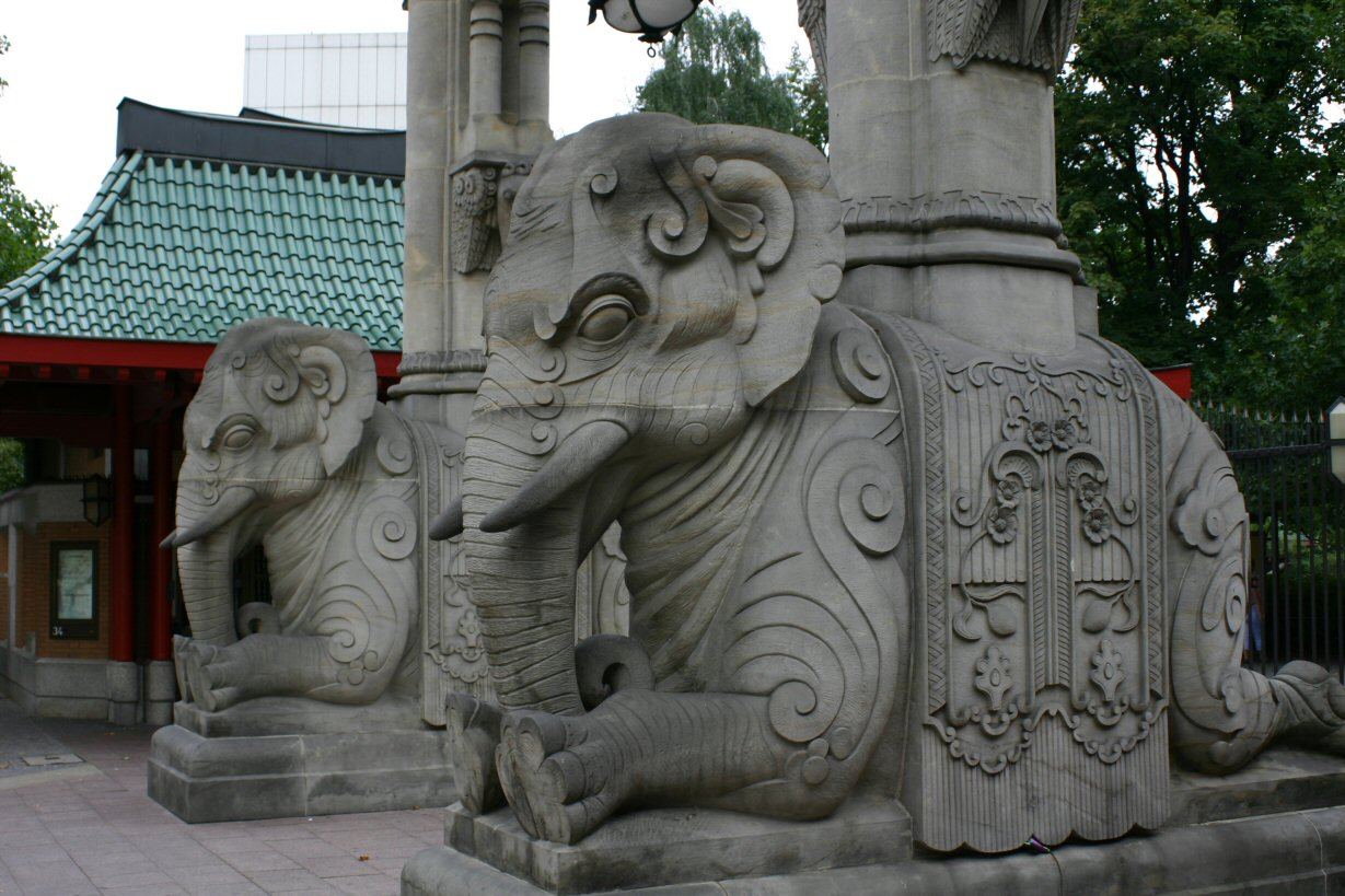 Elephant Gate of the Berlin Zoo